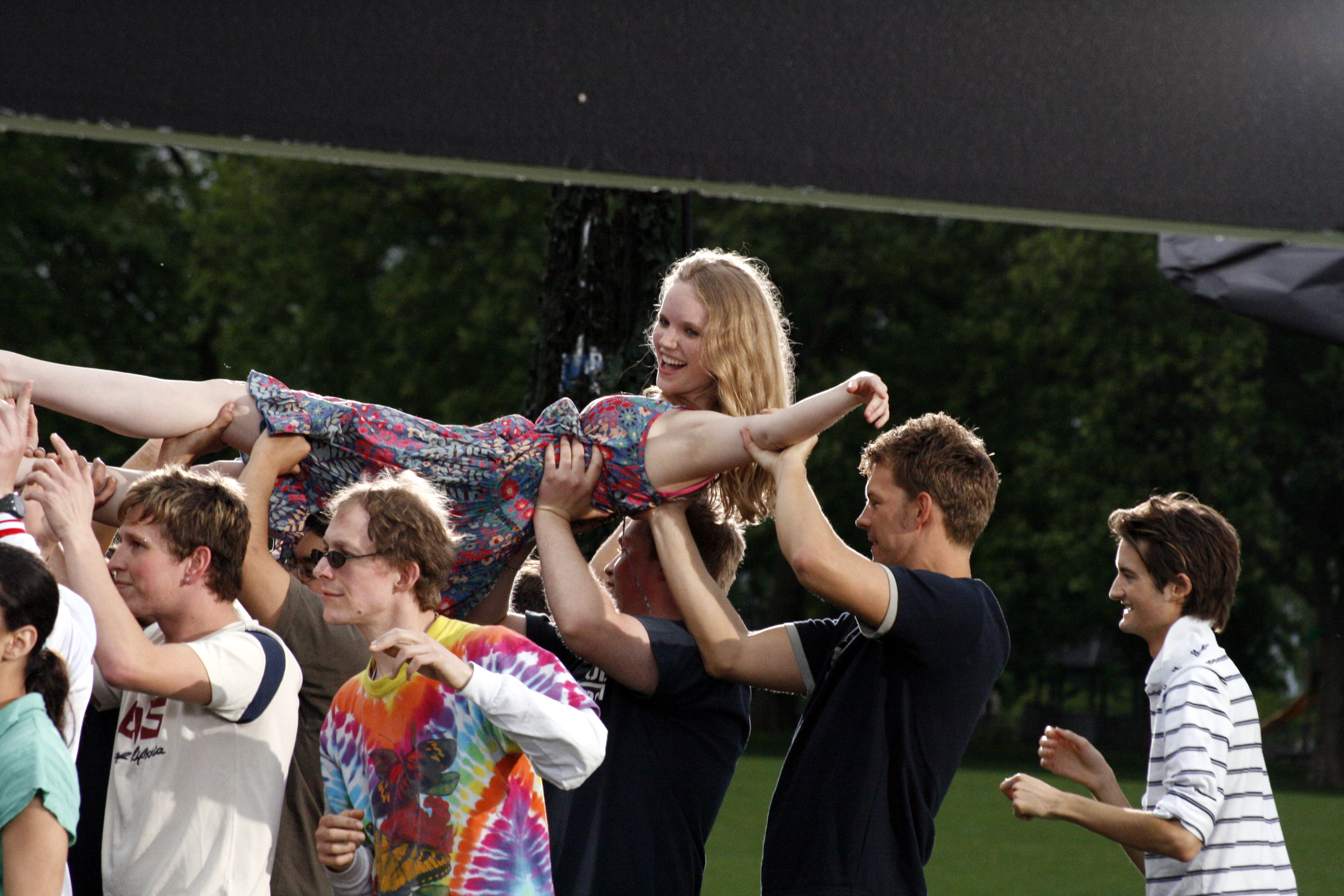 Shooting the new video: Song 4 Mutya (Out Of Control) In Finsbury Park, London